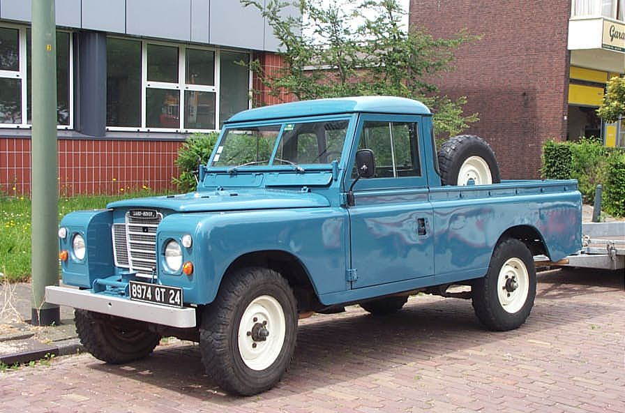 Land Rover 109 Pick-Up 1980